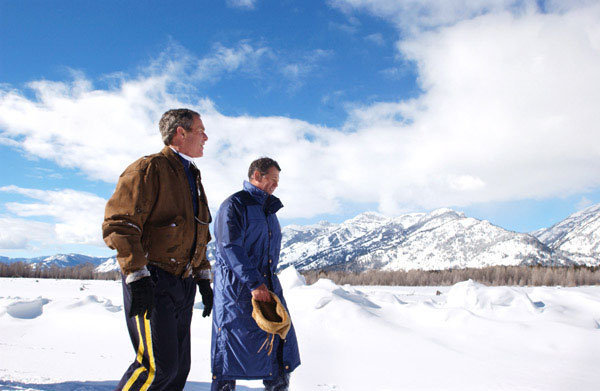 President George W. Bush and friend Roland Betts walk a private trail along the Snake River in Jackson Hole, Wyoming, Saturday, Feb. 9, 2002. The President and Mrs. Bush are staying at the Jackson Hole residence of Roland and Lois Betts. The Grand Teton Mountains are shown in background. White House photo by Eric Draper.